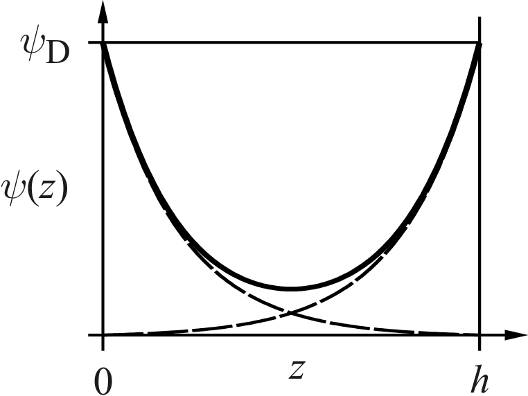 Double Layer Forces Superposition Scheme